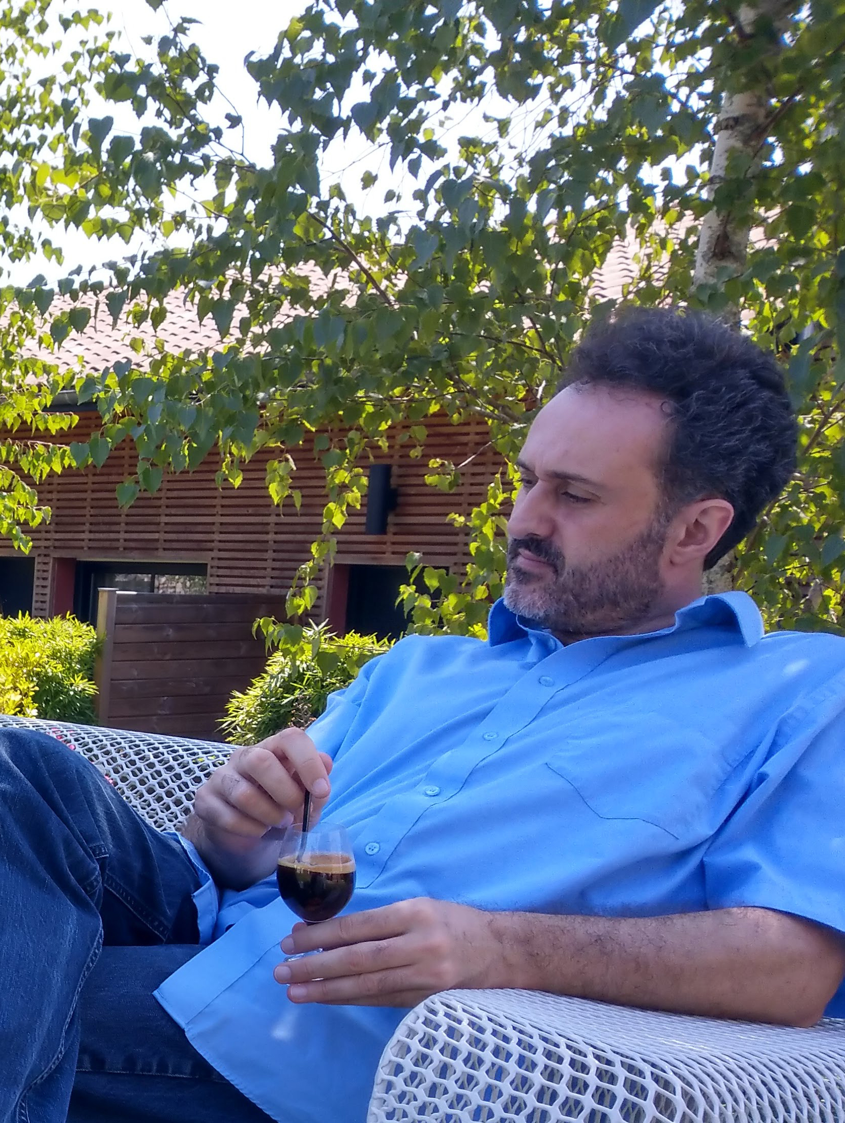 Bertrand Toen 2019